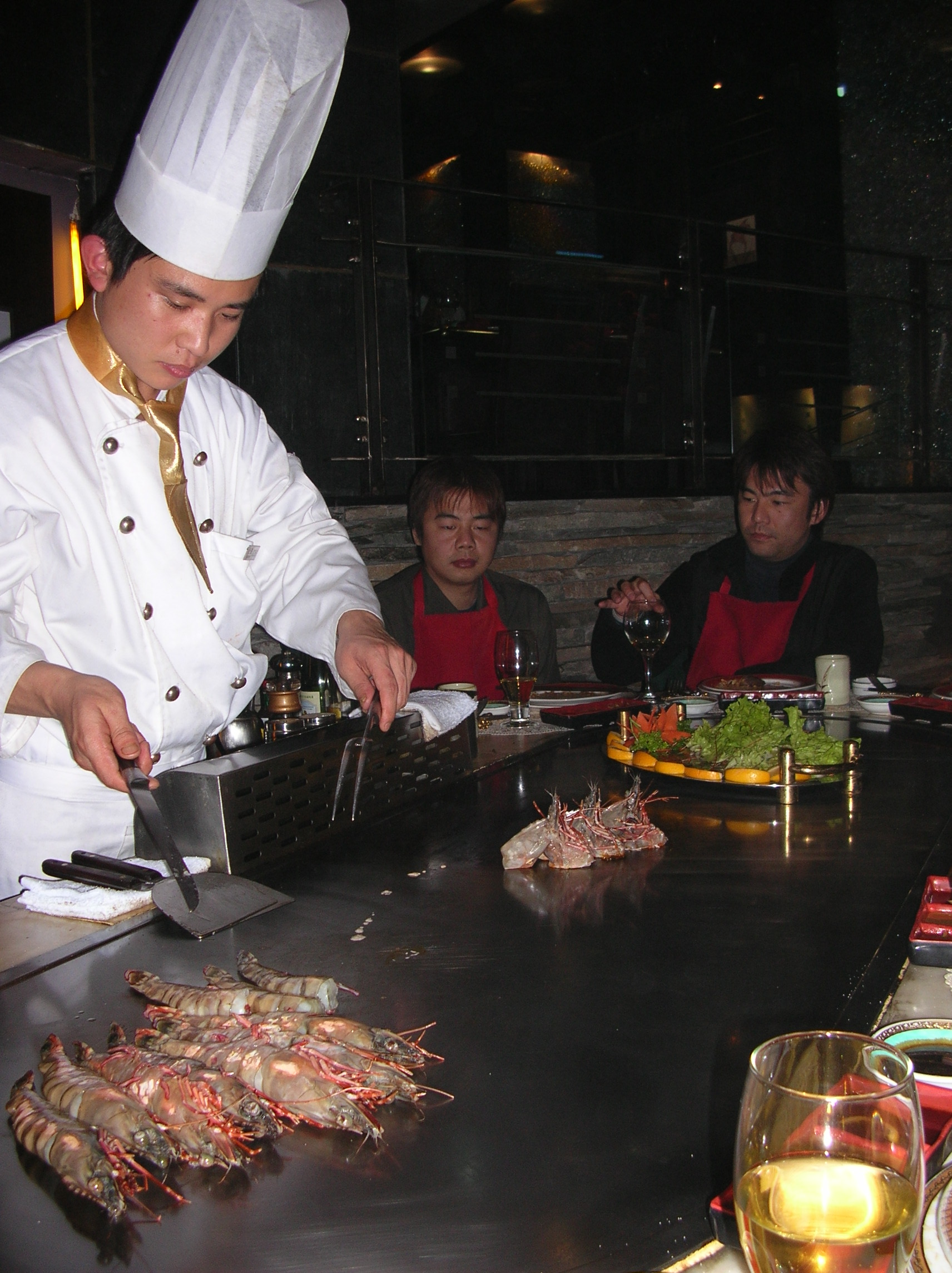 Cuisine of Japan